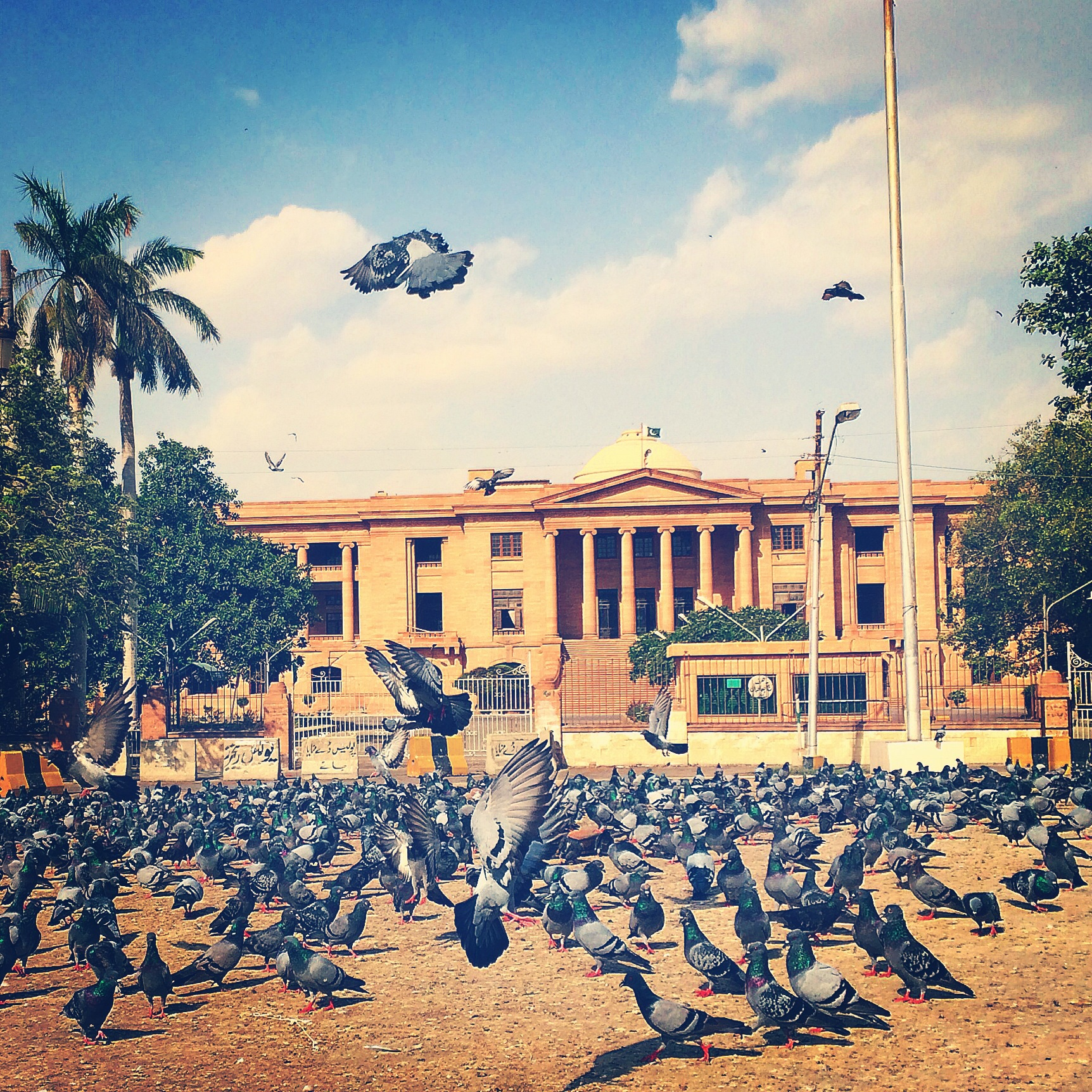 Sindh High Court , as seen in the background from 'Kabootar Chowk' (Pigeon roundabout) , Karachi's answer to London's Trafalgar Square albeit minus the lion statutes and tourists . Early in the morning the area does make for a peaceful stroll , come midday back to the crazy hustle and bustle of downtown Karachi. This is a photo of a monument in Pakistan identified as the SD-P-240